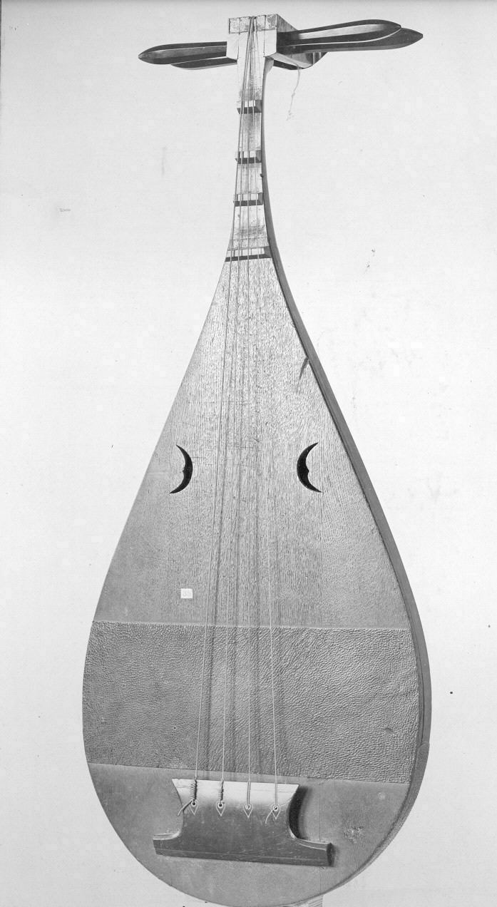 Japanese; Heike Biwa; Chordophone-Lute-plucked-fretted